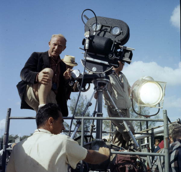 Persistent URL: Local call number: JJS0250 Title: Cameramen during filmming of "Wind Across the Everglades" on location in Everglades National Park Date: 1958 General note: "Wind Across the Everglades" was directed by Nicholas Ray ("Rebel Without a Cause") and written by Budd Schulberg ("A Star is Born"; "On the Waterfront"). The movie starred Christopher Plummer and Burl Ives and was released by Warner Brothers in 1958. Physical descrip: 1 transparency - col. - 60 mm. Series Title: Repository: 500 S. Bronough St., Tallahassee, FL 32399-0250 USA. Contact: 850.245.6700.